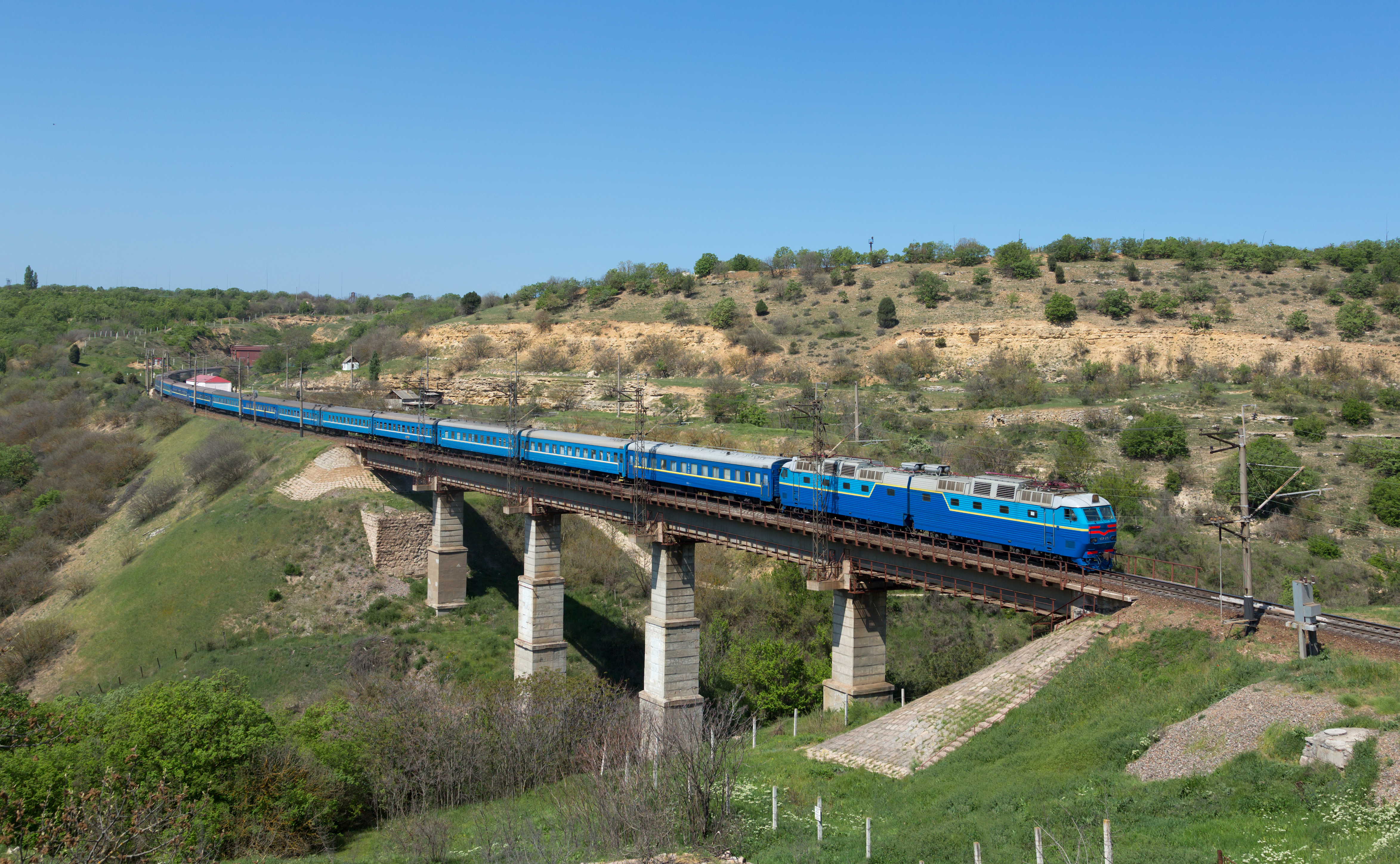 An Ukrainian Railway class ChS7 is hauling train 28 Kiev - Sevastopol and will soon reach Inkerman. Picture taken between Bakhchysarai and Inkerman, Ukraine.